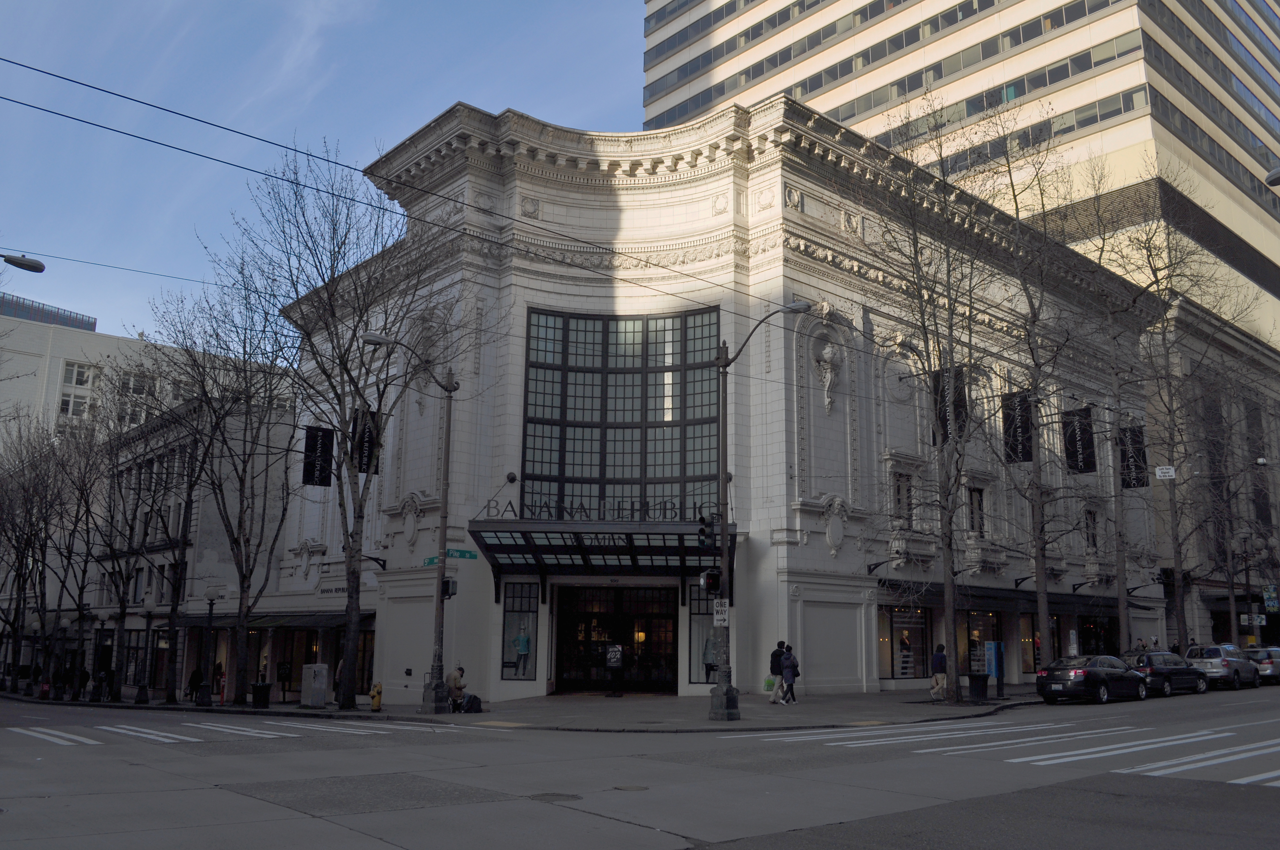 The former Coliseum Theater ("the first of the world's movie palaces"[1]), constructed 1914–1916, designed by B. Marcus Priteca), Seattle, Washington, USA. The building, now a Banana Republic store, is on the National Register of Historic Places, ID #75001854.